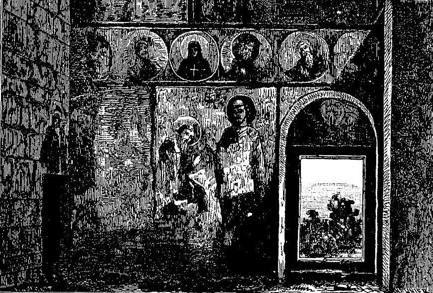 Bedia church frescoes (Roskoschny, 1884)